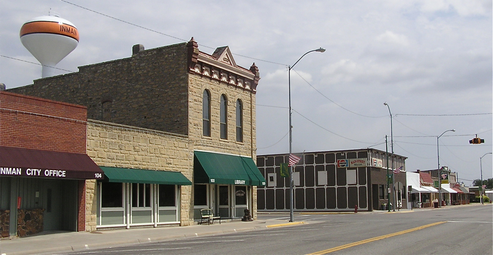 Main Street in Inman, Kansas, May 27, 2012.